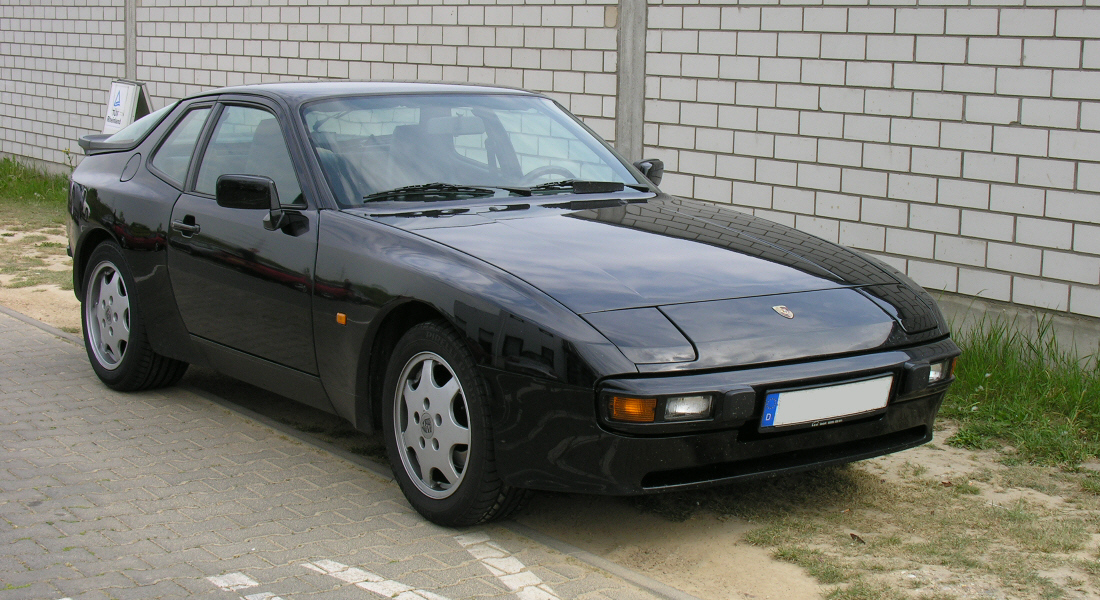 Black Porsche 944 S frontview in Rheinbach, Germany.